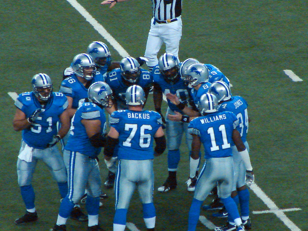 Jon Kitna (#8) leads a huddle of Detroit Lions players in November 2007